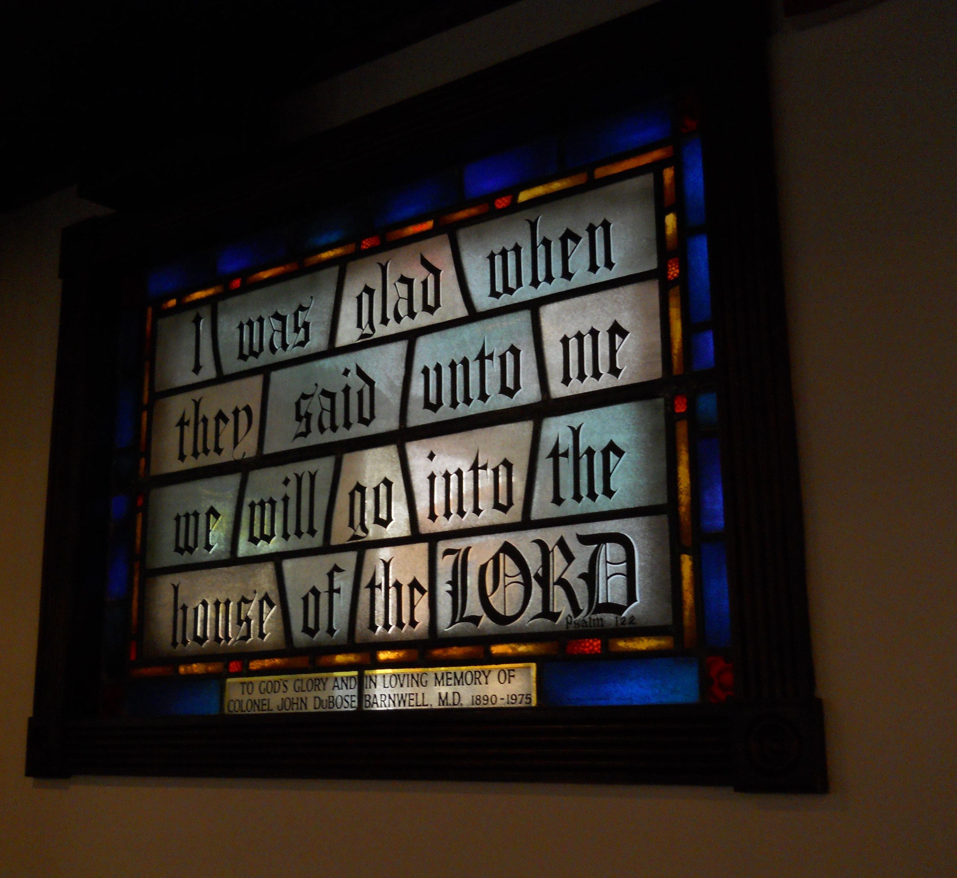 All Saints Episcopal Church, Jensen Beach. Florida: Barnwell memorial window, Psalm 122:1, between the expanded nave and the new narthex